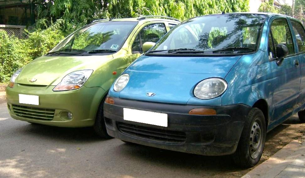 Matiz